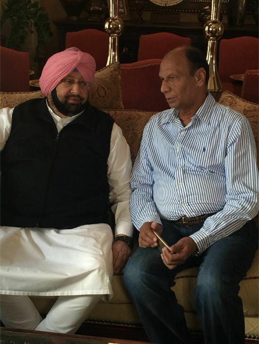 This is Dr. Dharambir Agnihotri sitting next to Amarinder Singh.